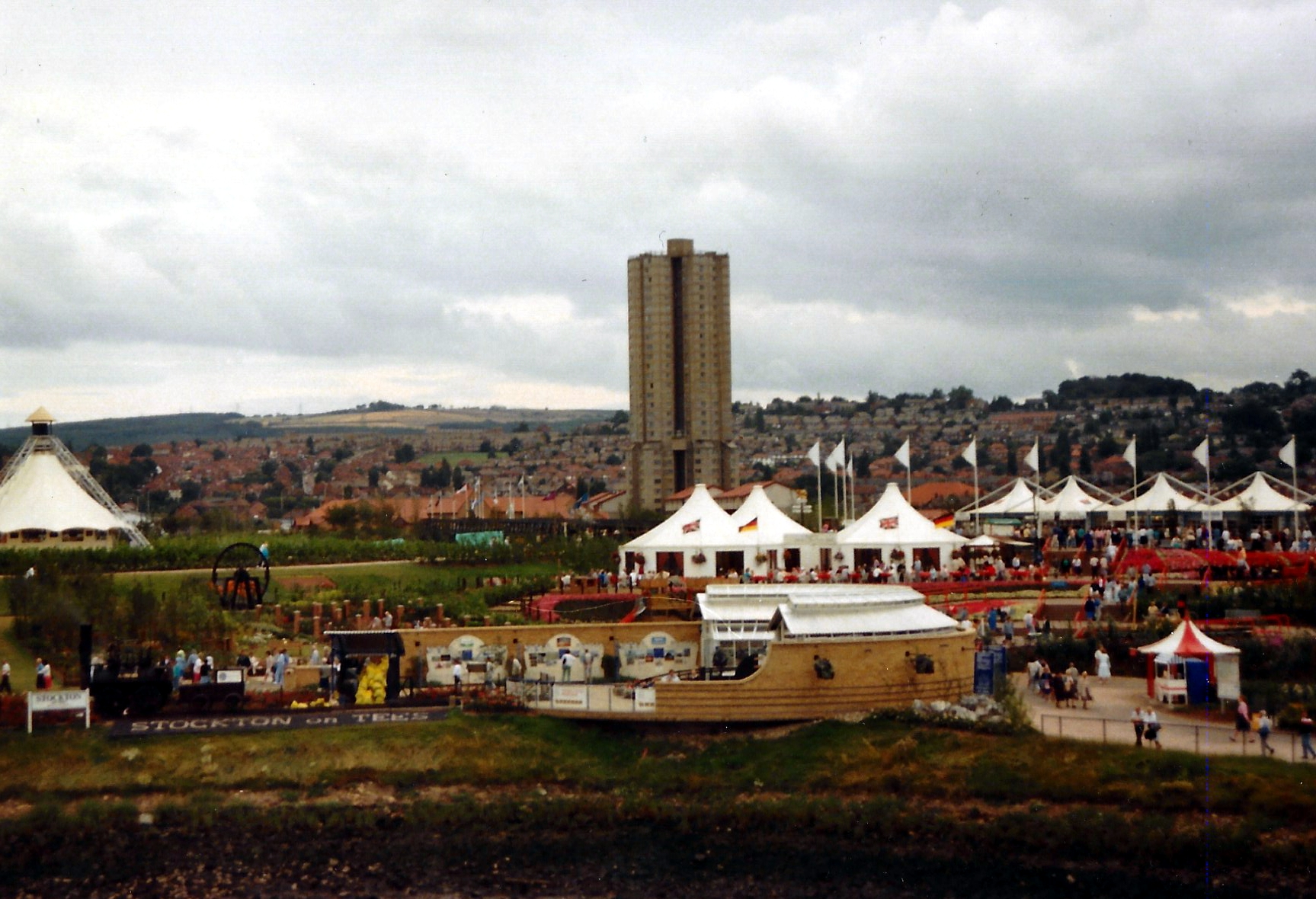 Gateshead Garden Festival, held in Gateshead between 18 May and 21 October 1990. This is a colour print photo which has been scanned and colour adjusted. Note I visited the festival on 2 or 3 occasions and I am not sure of the exact dates of my photos.